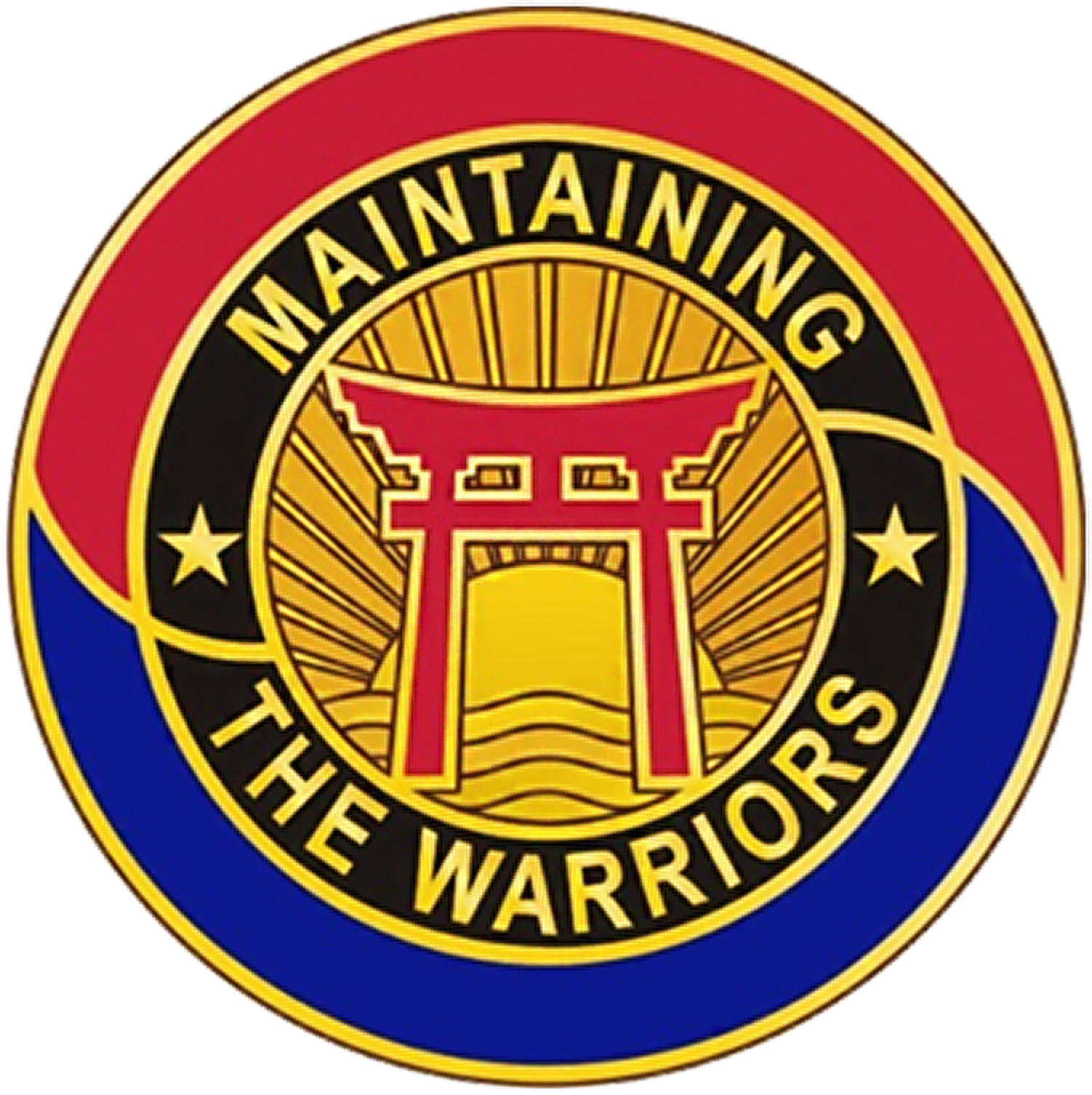 symbol